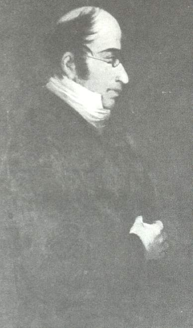 Santaroza